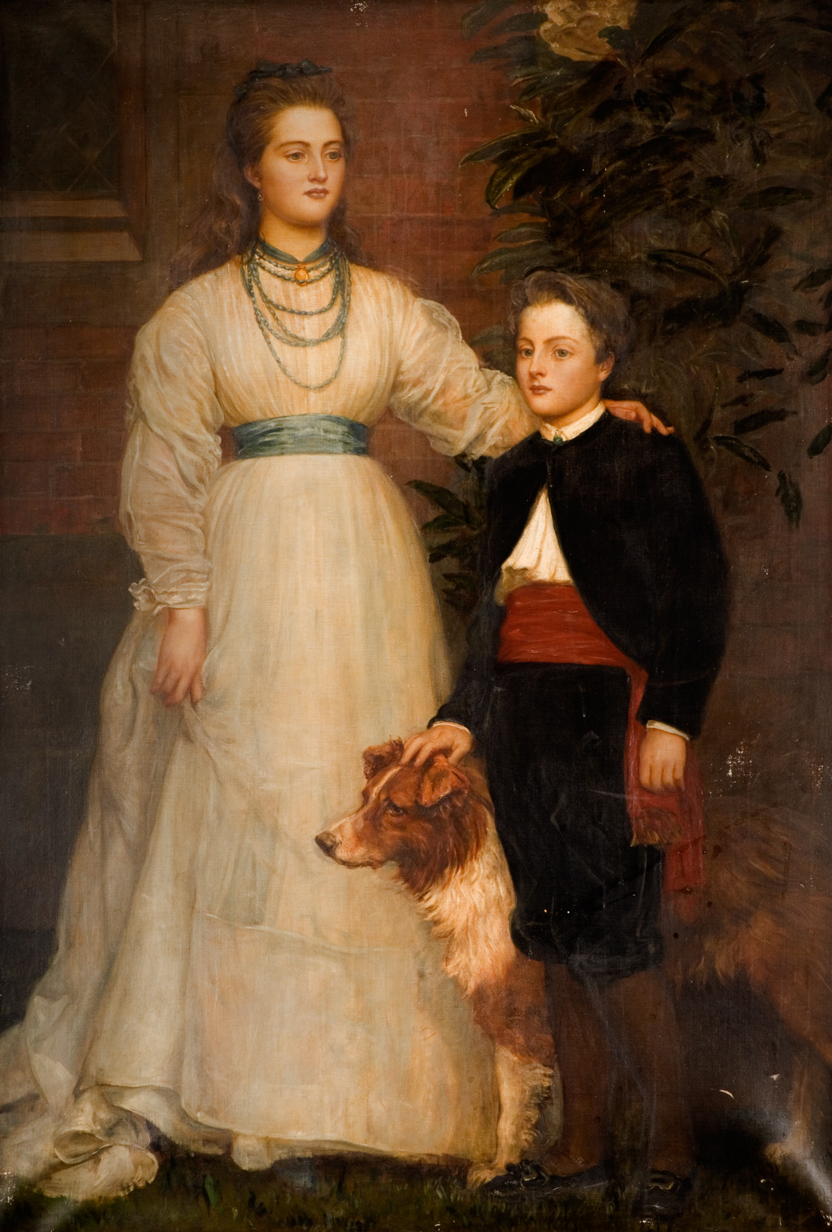 Portrait of Theresa Susey Helen Talbot, Later Marchioness of Londonderry (1856-1919) and Charles Henry John, Viscount Ingestre (1860–1921). Theresa Susey Helen Talbot, daughter of Charles Chetwynd-Talbot, 19th Earl of Shrewsbury, married Charles Vane-Tempest-Stewart, 6th Marquess of Londonderry, in 1875. Courtesy of the collection of Ingestre Hall Residential Arts Centre.